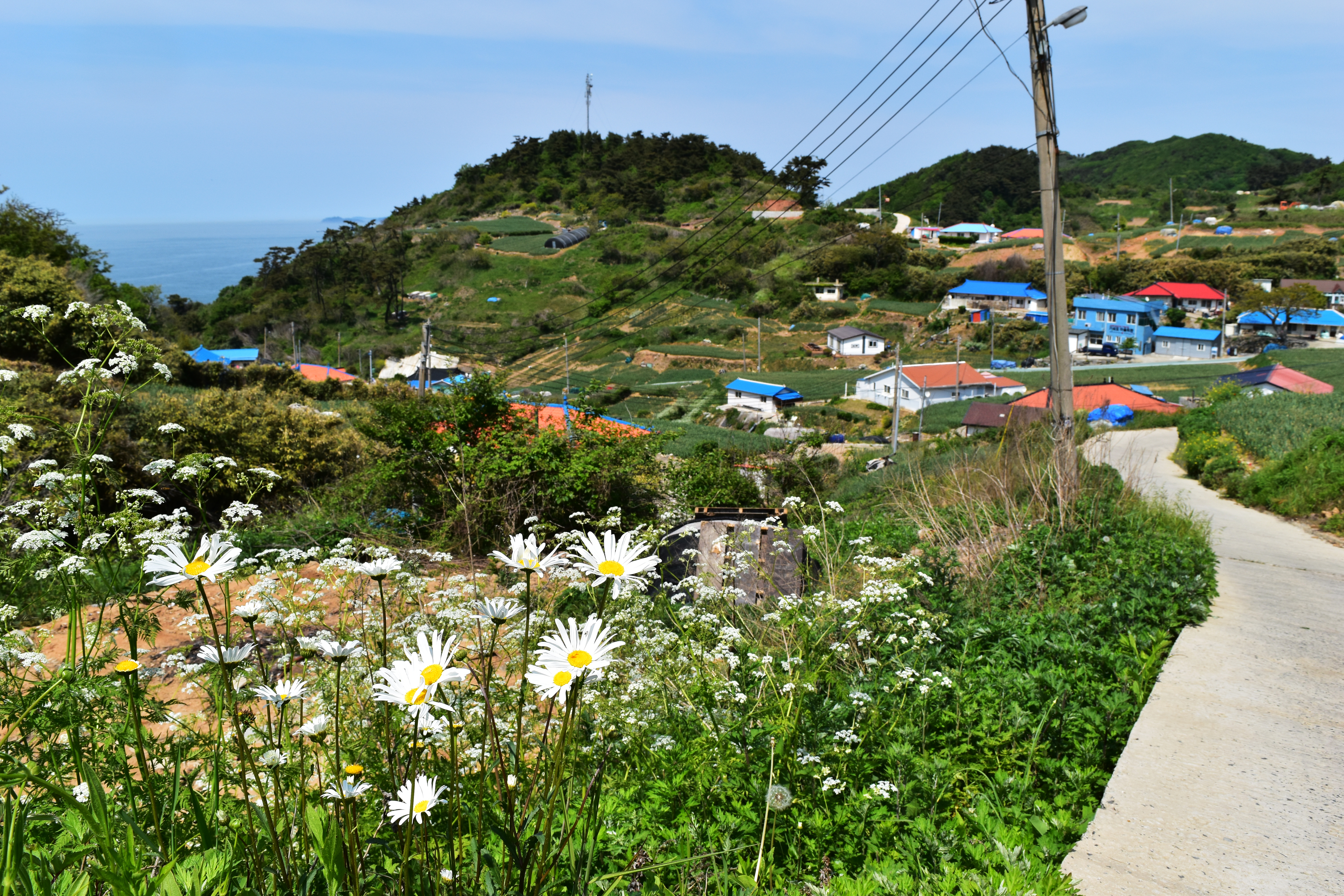 Gauido at Taeanhaean National Park